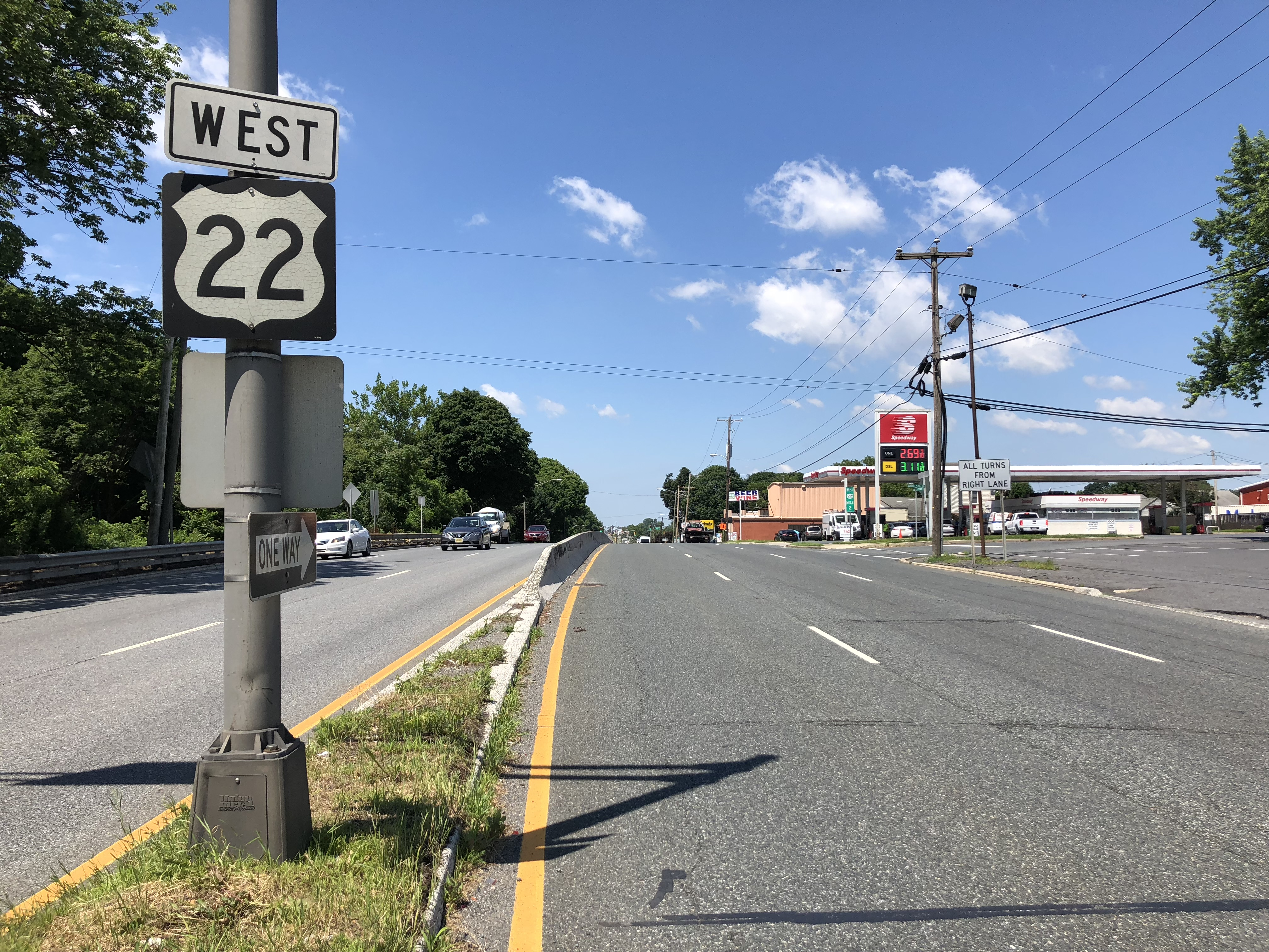 View west along U.S. Route 22 between 6th Street and 5th Street in Lopatcong Township, Warren County, New Jersey